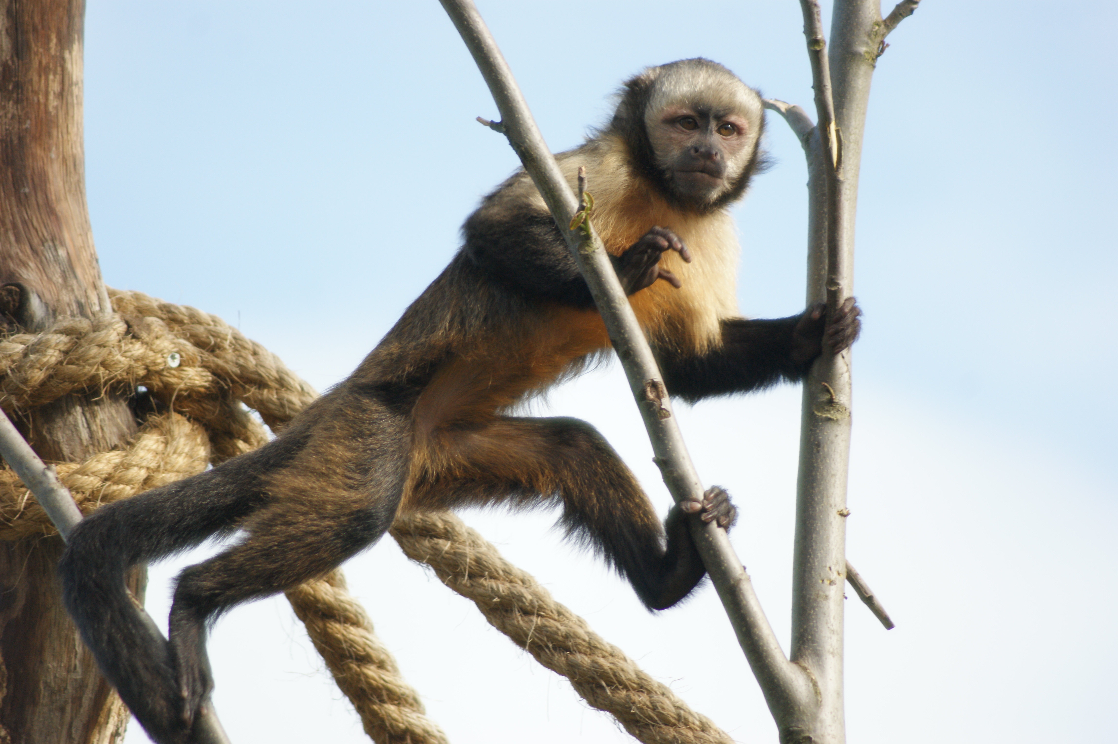 Golden-bellied capuchin (Cebus apella xanthosternos) at Zoo Zürich